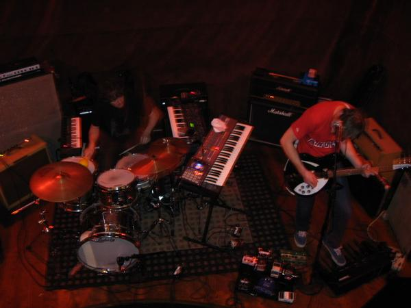 Palace of Buddies playing at the Hotel Utah in San Francisco, CA.